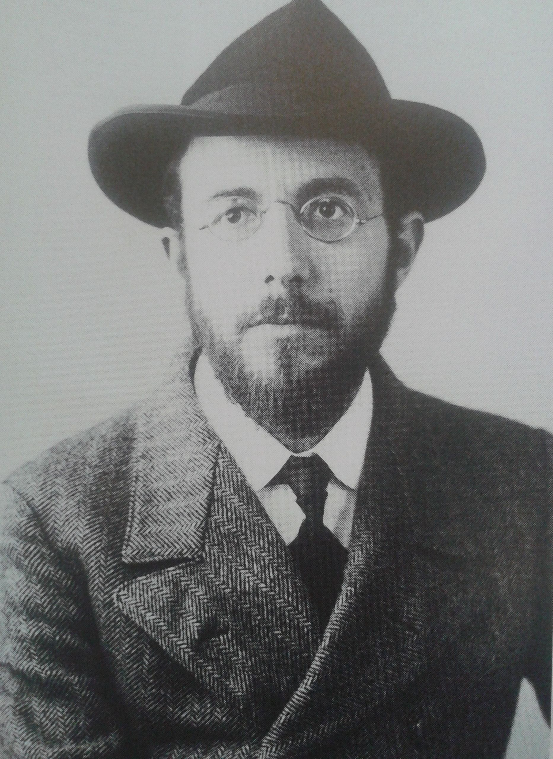 Hans Hindermann (1877-1963), portrait of ca. 1907